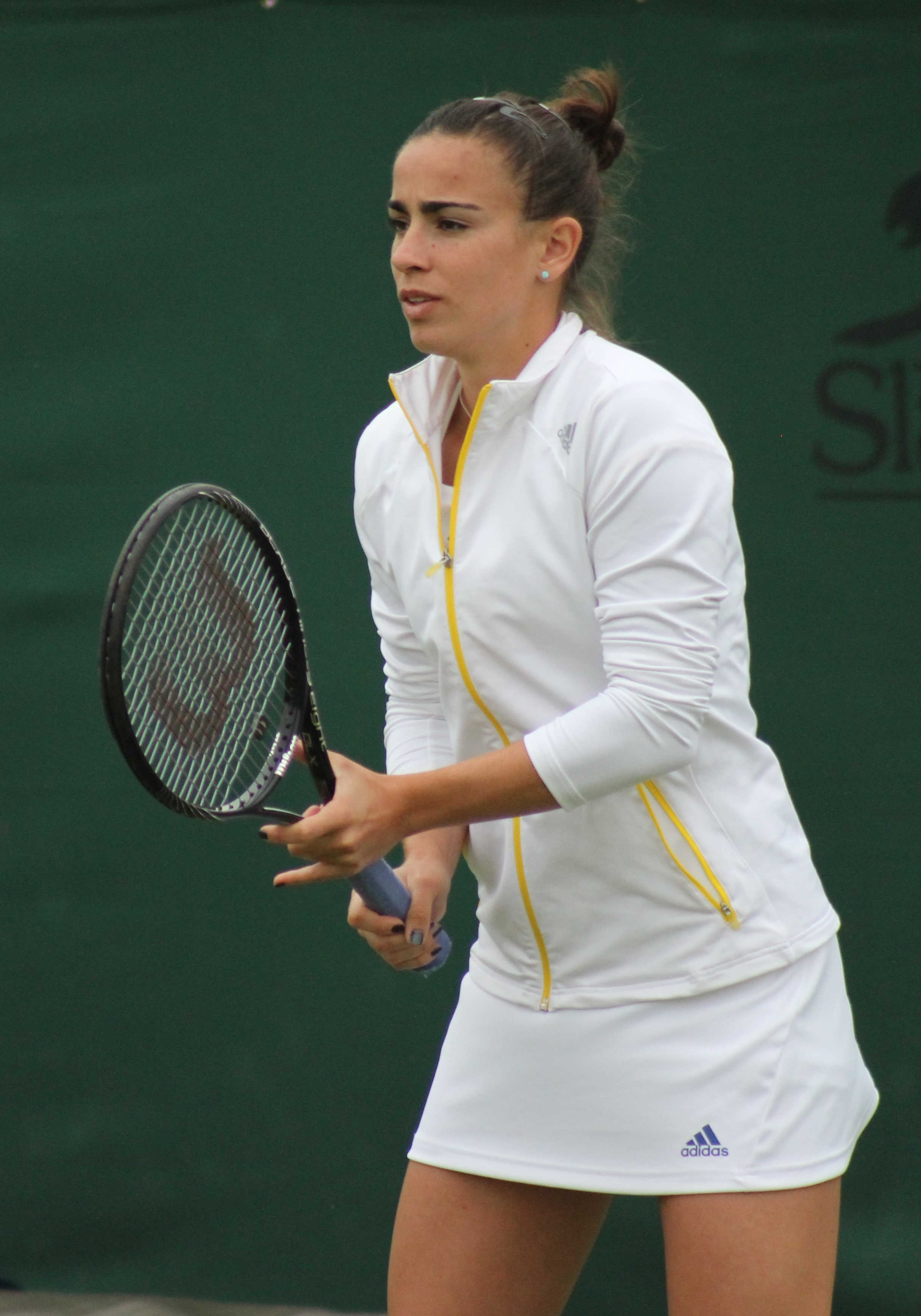 Paula Ormaechea, 2013 Wimbledon Qualifying Tournament